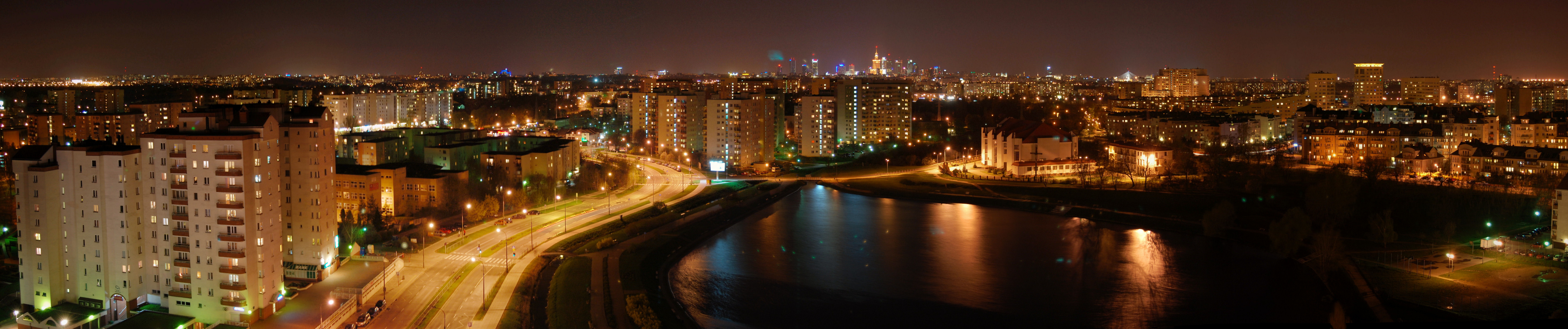 Panorama of Goclaw discrict and Warsaw